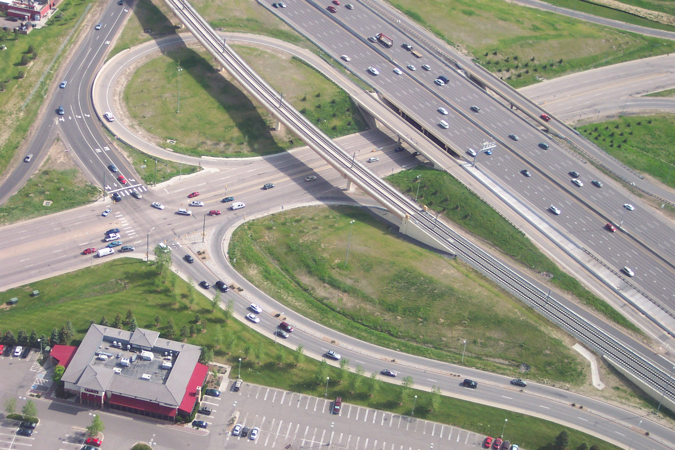 West Side of I-25 and County Line Road form a plane